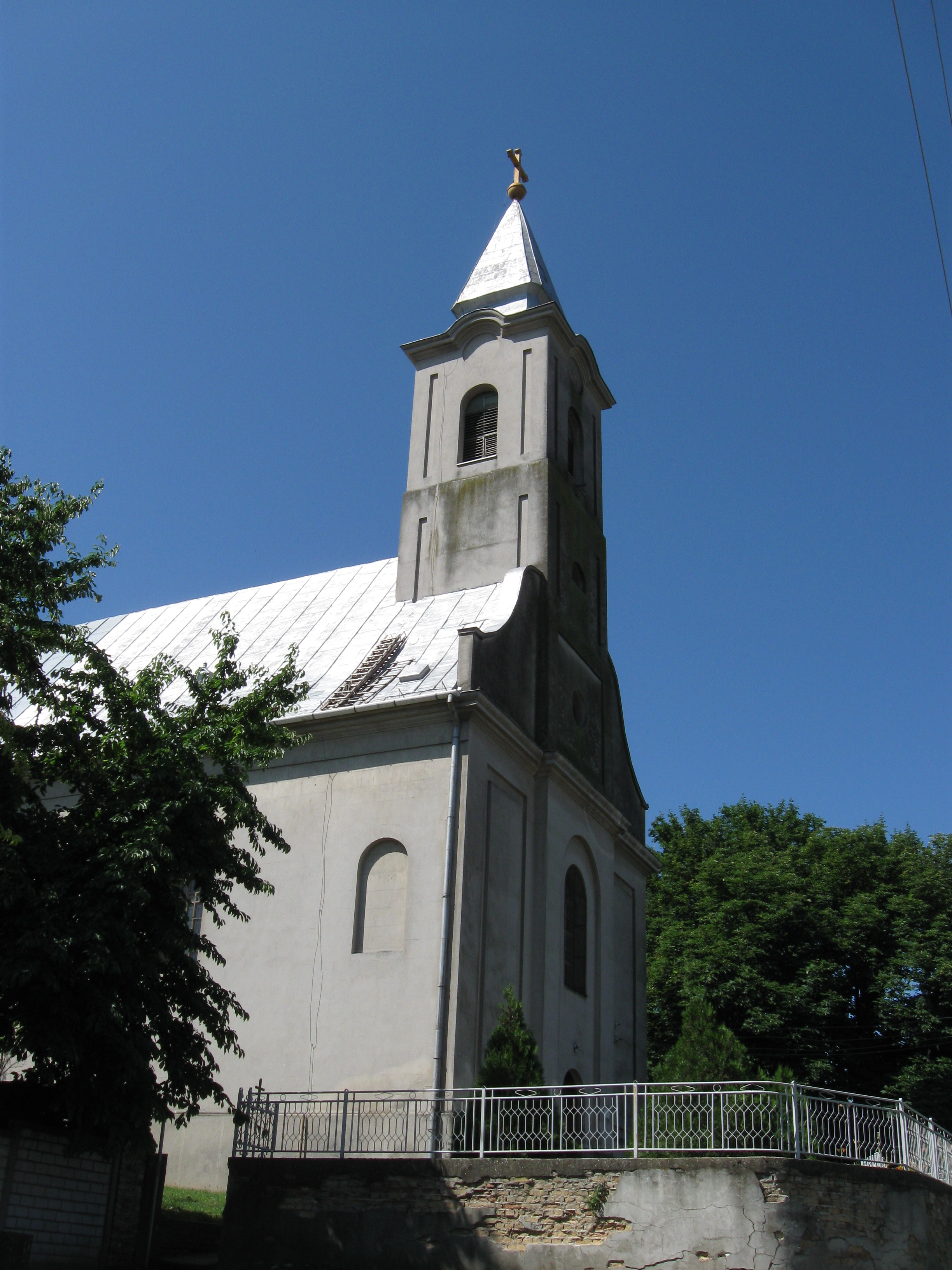 church